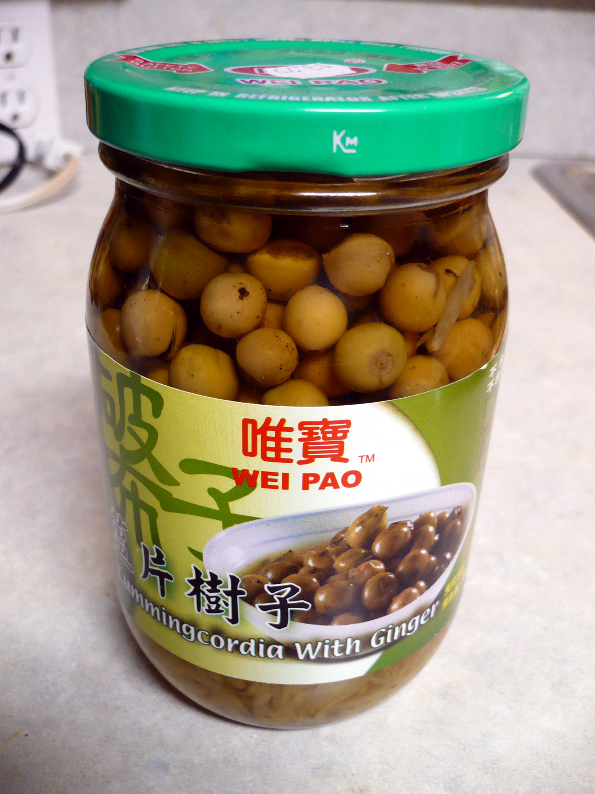 A jar of Wei Pao (唯寳) brand pickled fragrant manjack fruits with ginger, from Taiwan. Produced by Wei Pao Bio Tech Corporation, Sinfong Township, Hsinchu County, Taiwan. Ingredients: fragrant manjack (Cordia dichotoma), ginger, water, soy sauce, salt, sugar, and flavoring. Purchased in a Cleveland Asian supermarket. Photographed in Kent, Ohio, United States.